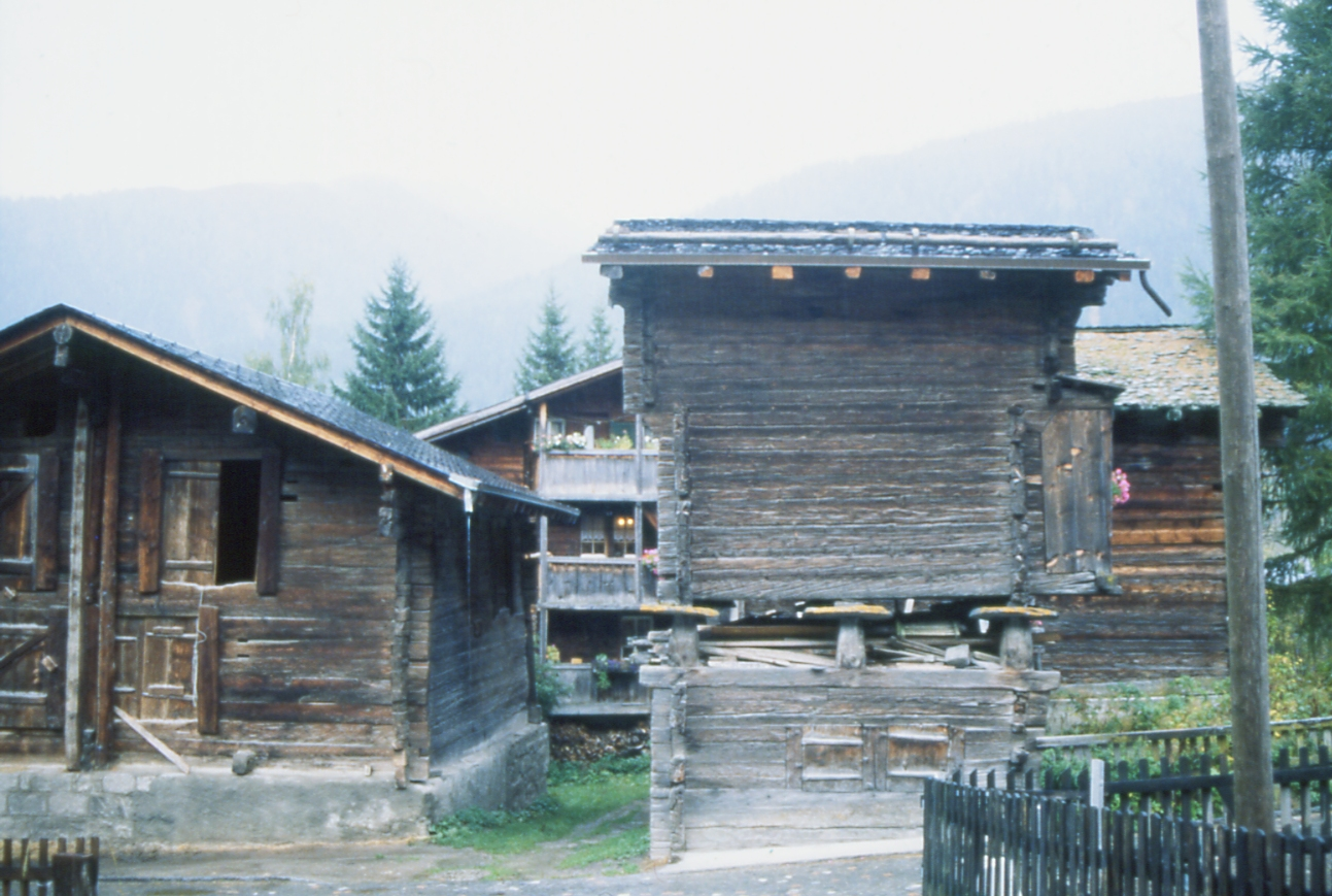 Traditional barns and a typical house in the village of Gluringen in the upper part of the Swiss canton of Valais